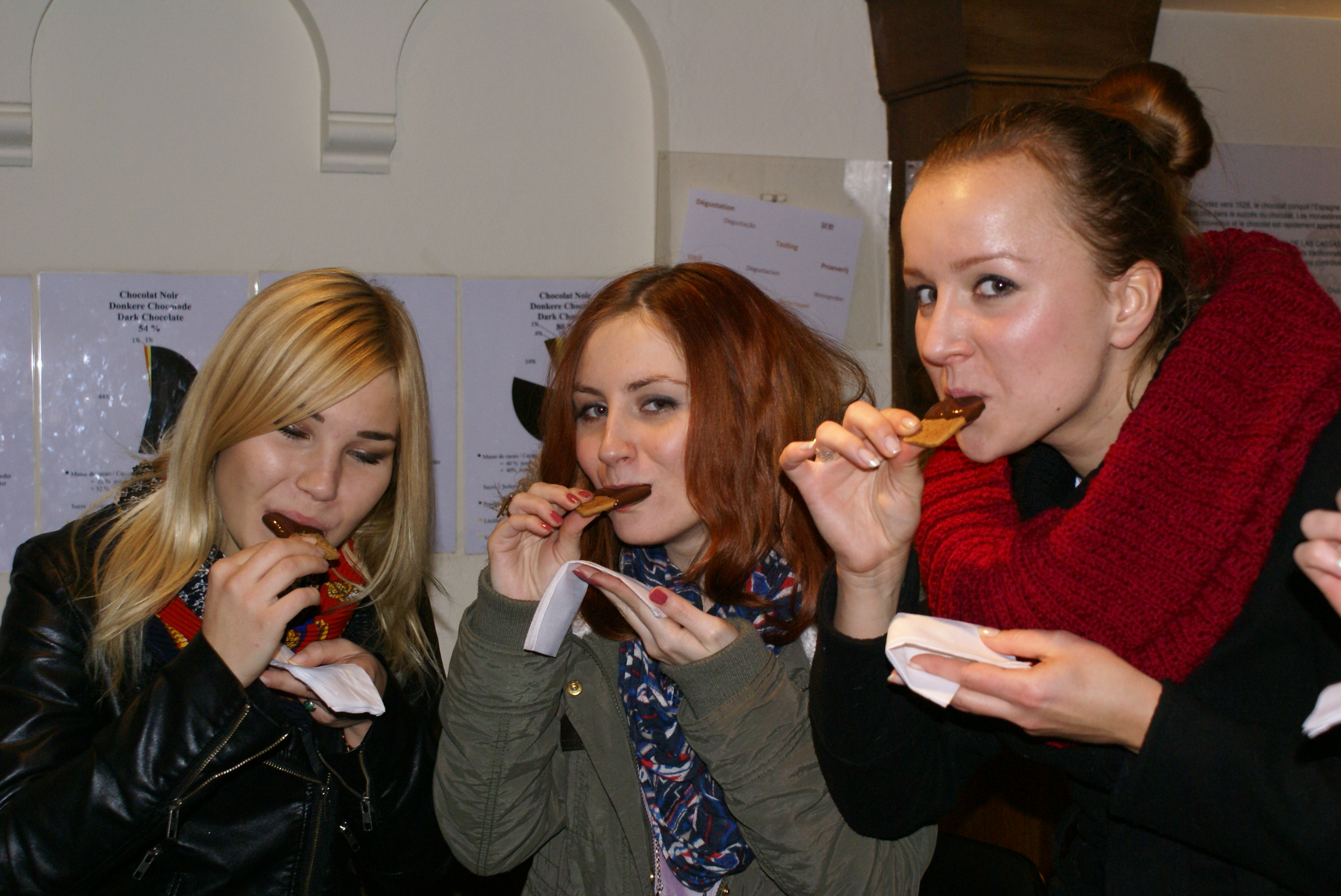 Photo by Musée du Cacao et du Chocolat, used with permission.